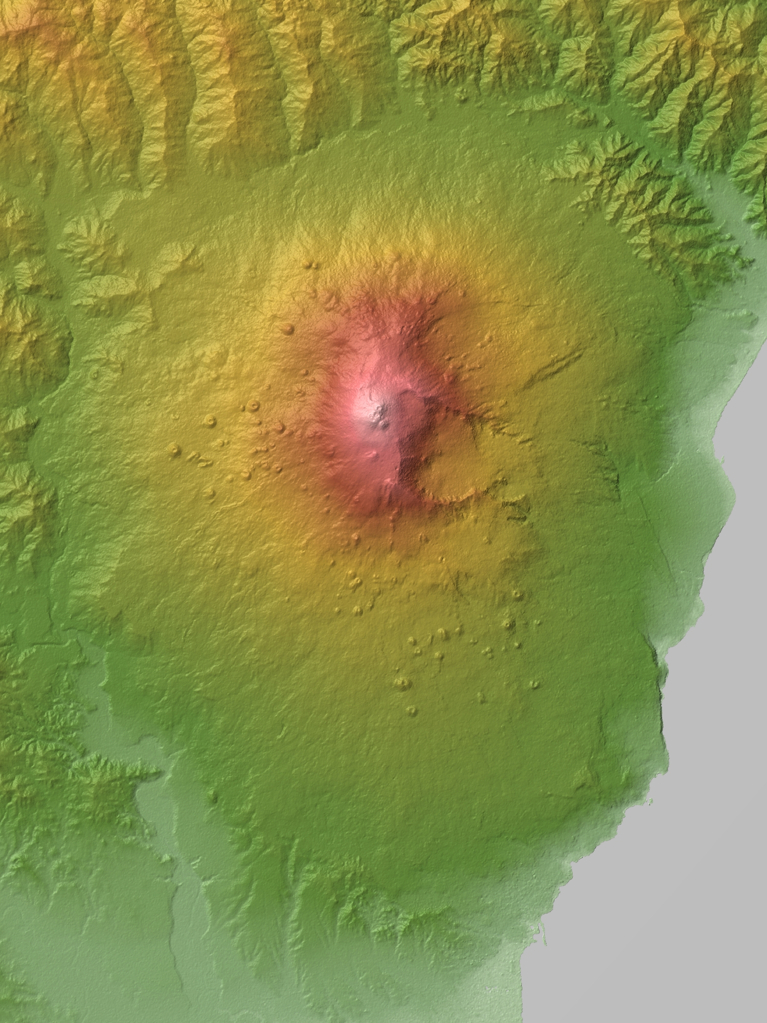 Mount Etna in Sicily, Italy.